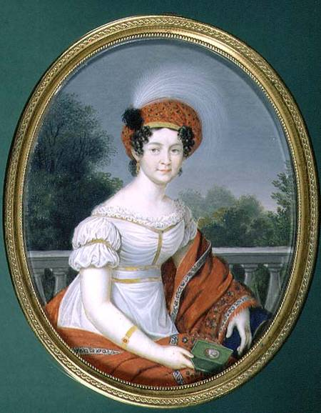 Portrait of Queen Catherine of Württemberg